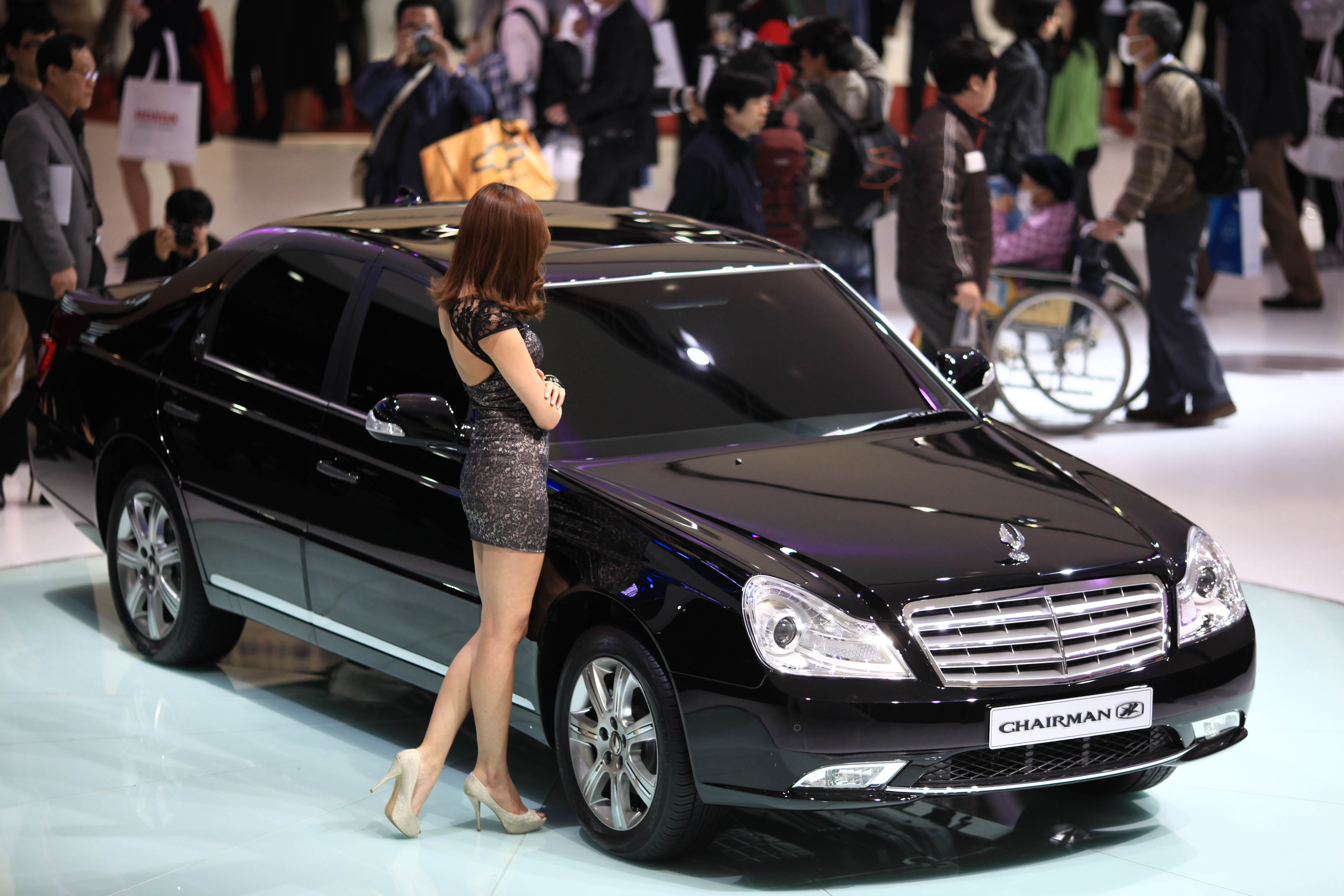 Chairman W